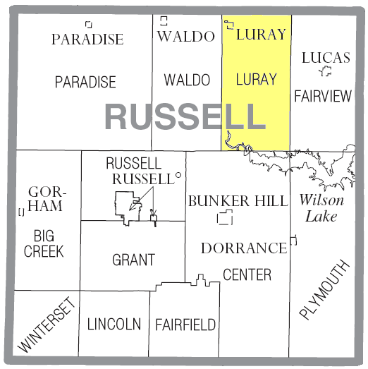 Map of Russell County, Kansas highlighting Luray Township